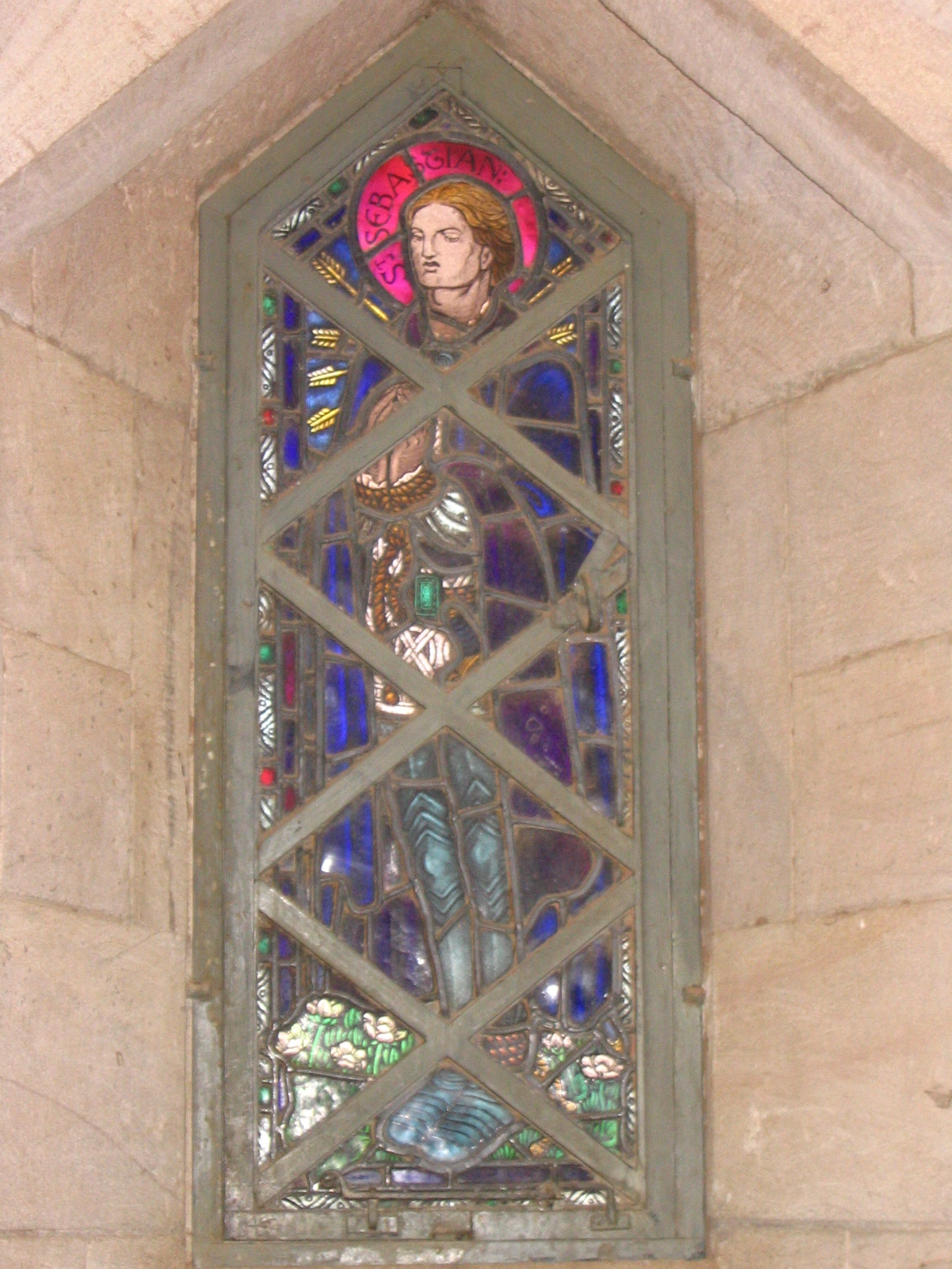 Stained glass window Depicting Saint Sebastian in Khartoum's Republican Palace Museum, formerly the Anglican Cathedral. The building was opened as a museum on December 31, 1999. The glasswork was completed by Mabel Esplin.